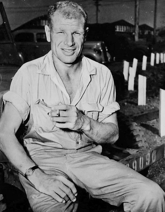 Photo of Bill Veeck in 1944. Veeck was recuperating from injuries sustained as a US Marine in World War II.